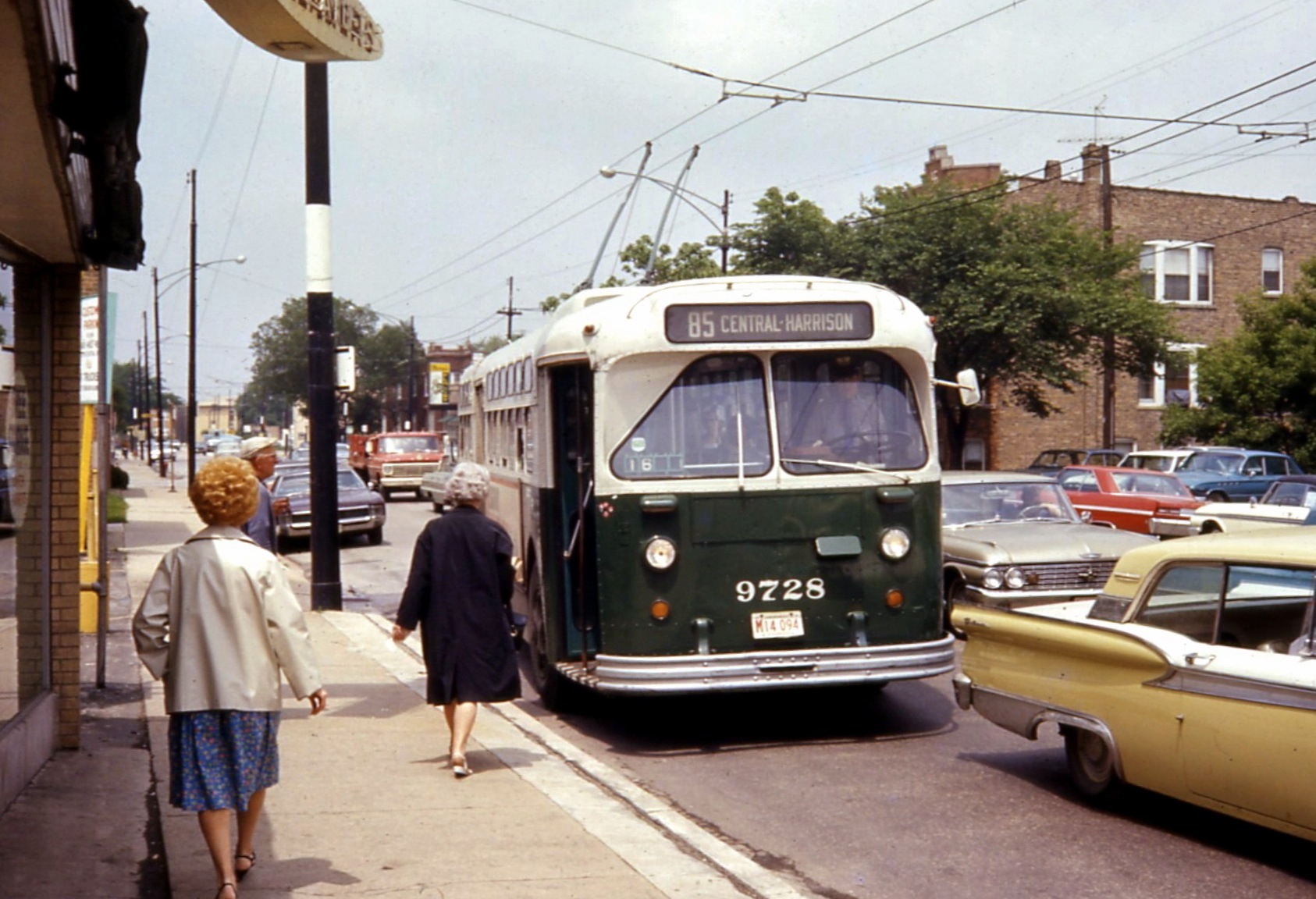 Chicago trolley bus 9728, a 1952 Marmon-Herrington TC49, making a stop on route 85-Central Avenue in 1968. It is southbound on Central Avenue at Lawrence Avenue. Chicago's trolley bus system closed in 1973, but this vehicle and more than 100 others from the Chicago Transit Authority's trolley bus fleet were then sold to Guadalajara, Mexico, for use on a new trolleybus system that opened there in late 1976.